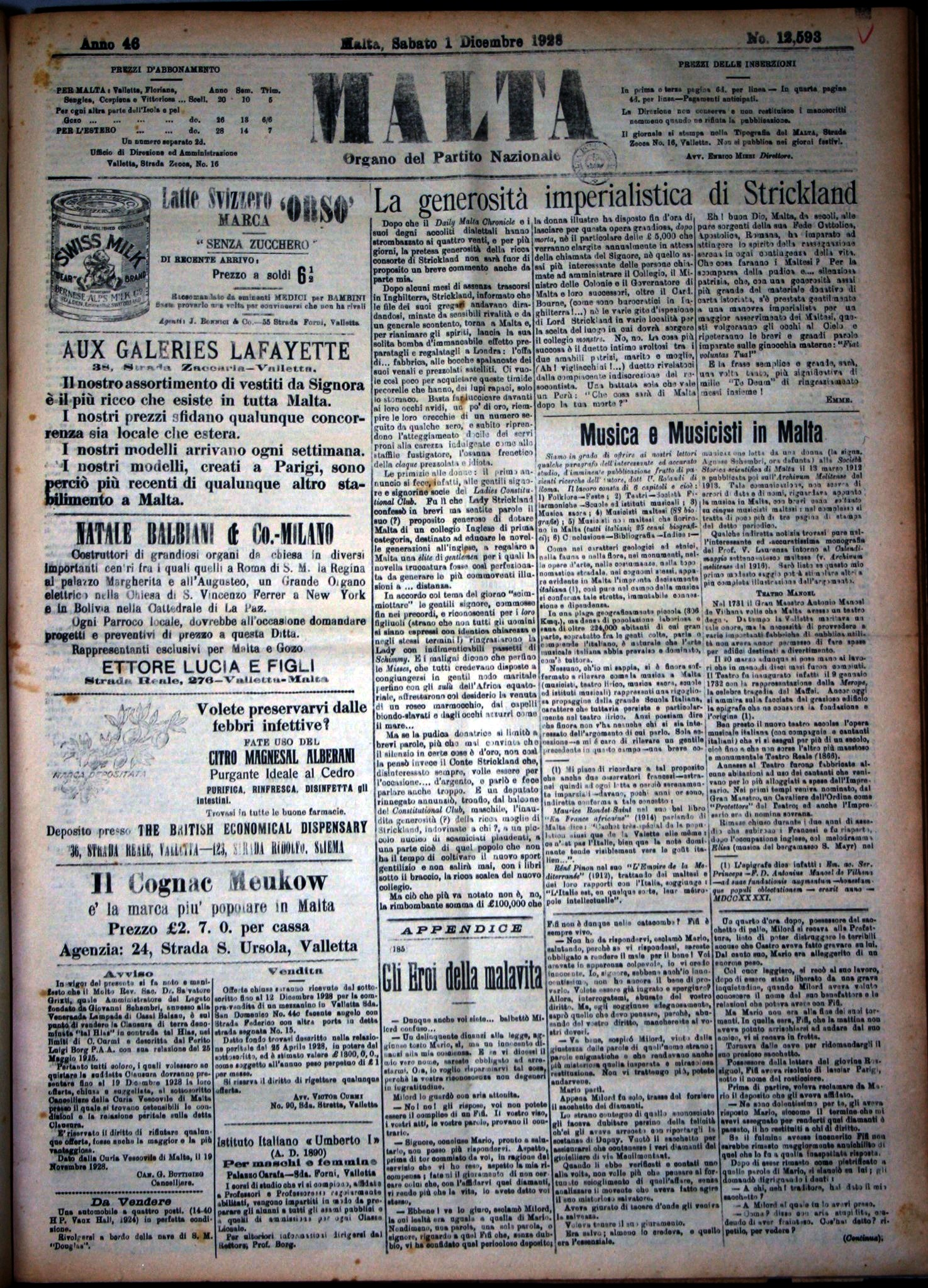 Front page of the "Malta - Quotidiano Nazionalista" of 1st December 1928